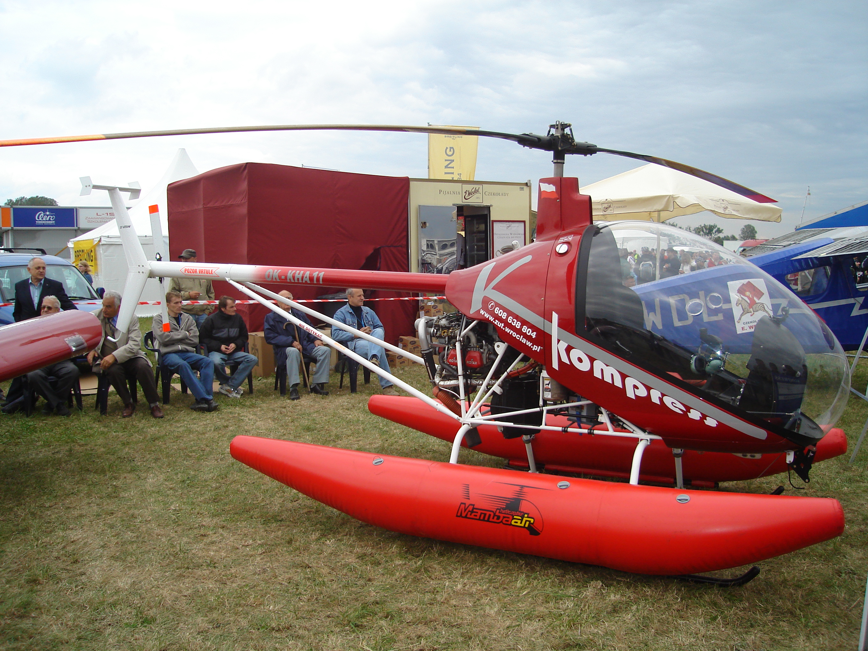 Picture of ultralight Elisport CH-7 Kompress helicopter, Radom Air Show 2007